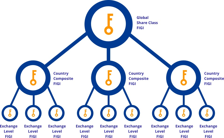 figi tree